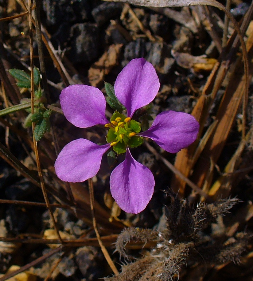 Mantle of the Virgin, Flower frontal; Haria, Lanzarote, Canary Islands, Spain.